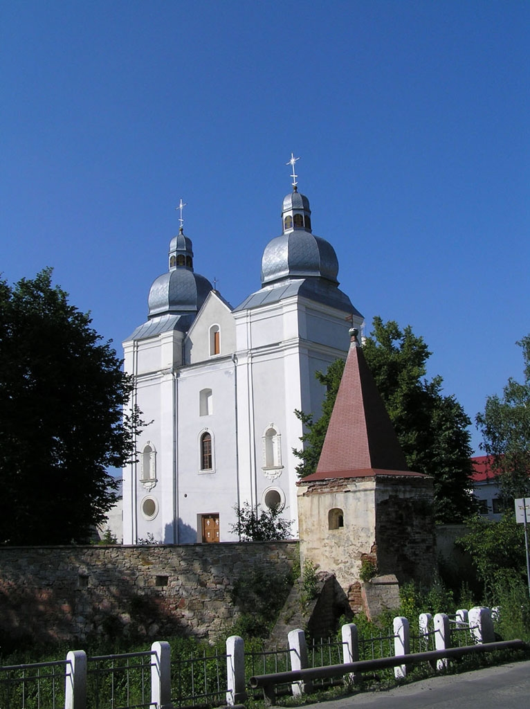 Church, Terebovlia